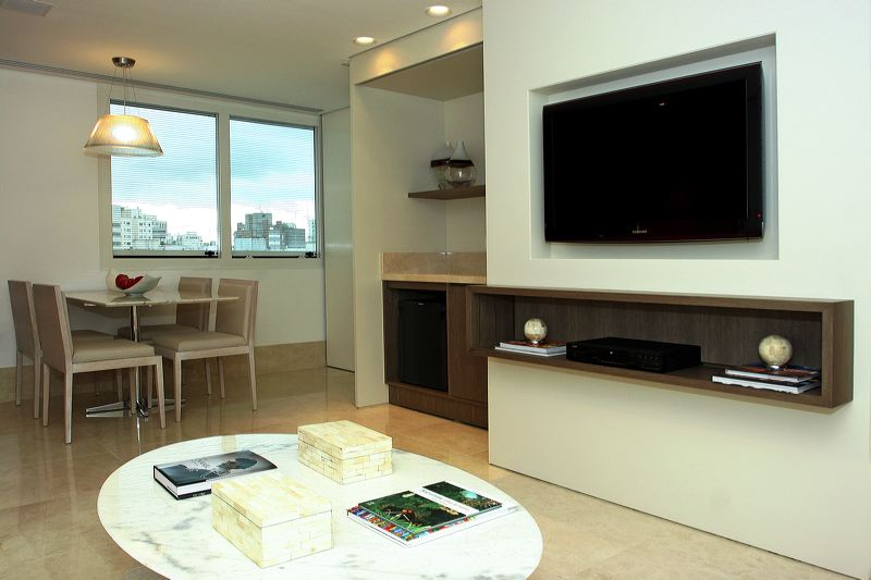 VIP room at Hospital Paulistano. (Sao Paulo - SP, Brazil)